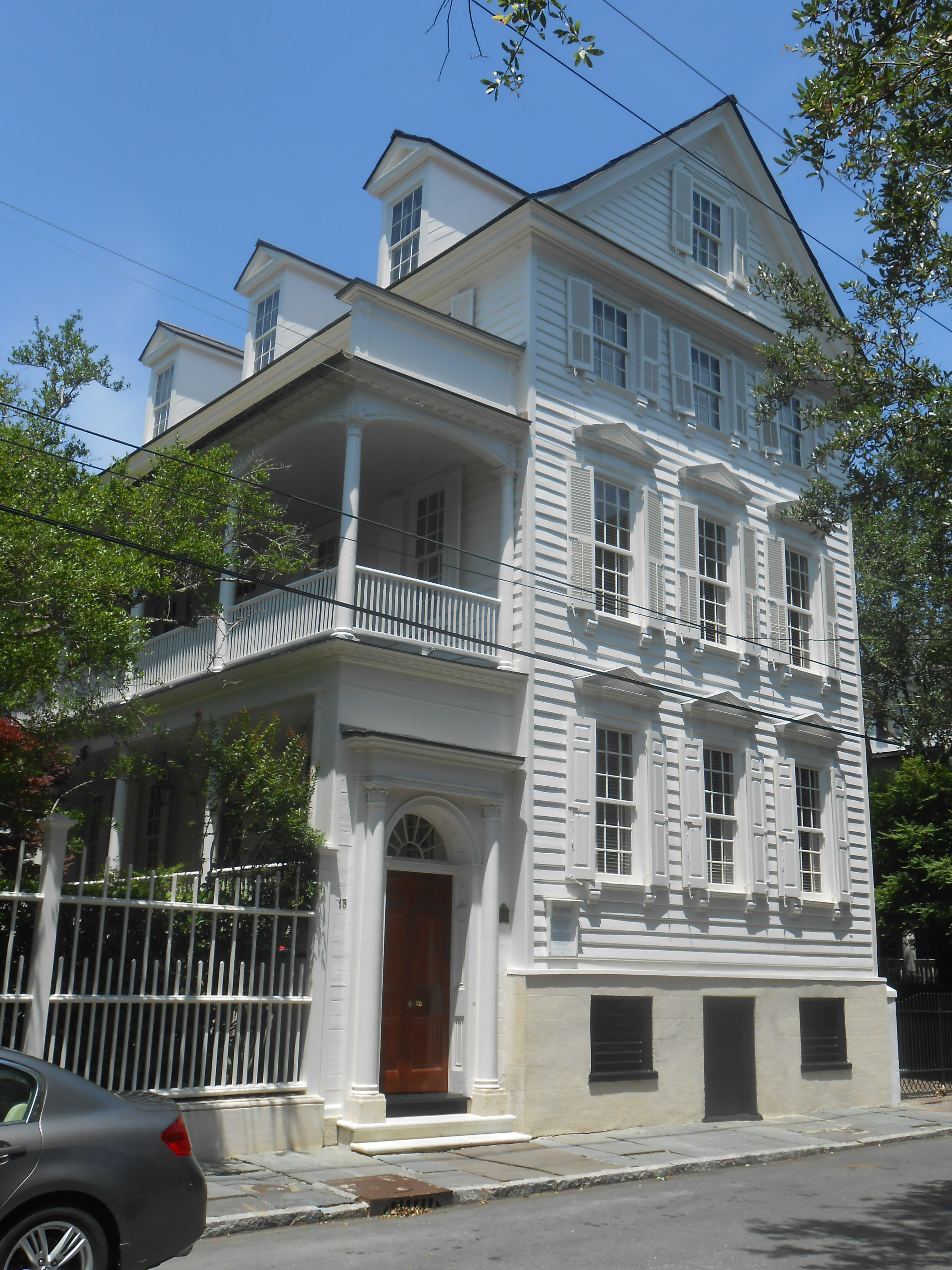 The John Fullerton House is a fine example of a Colonial era single house at 15 Legare St., Charleston, South Carolina.